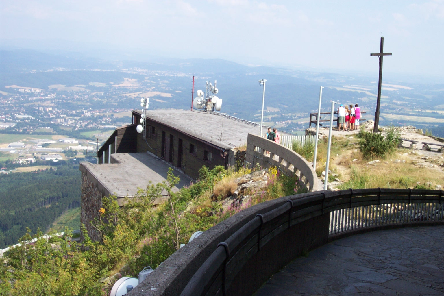 Upper station of Ještěd cable car, CZ